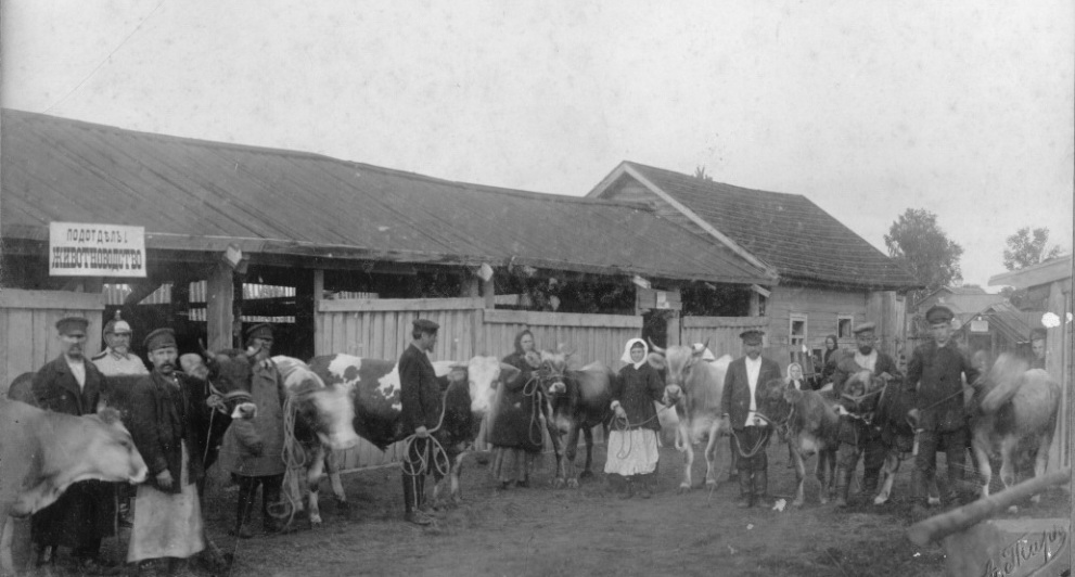 A group of peasants to the cows near the livestock pavilion Mologa county agricultural and handicraft exhibitions in 1912.